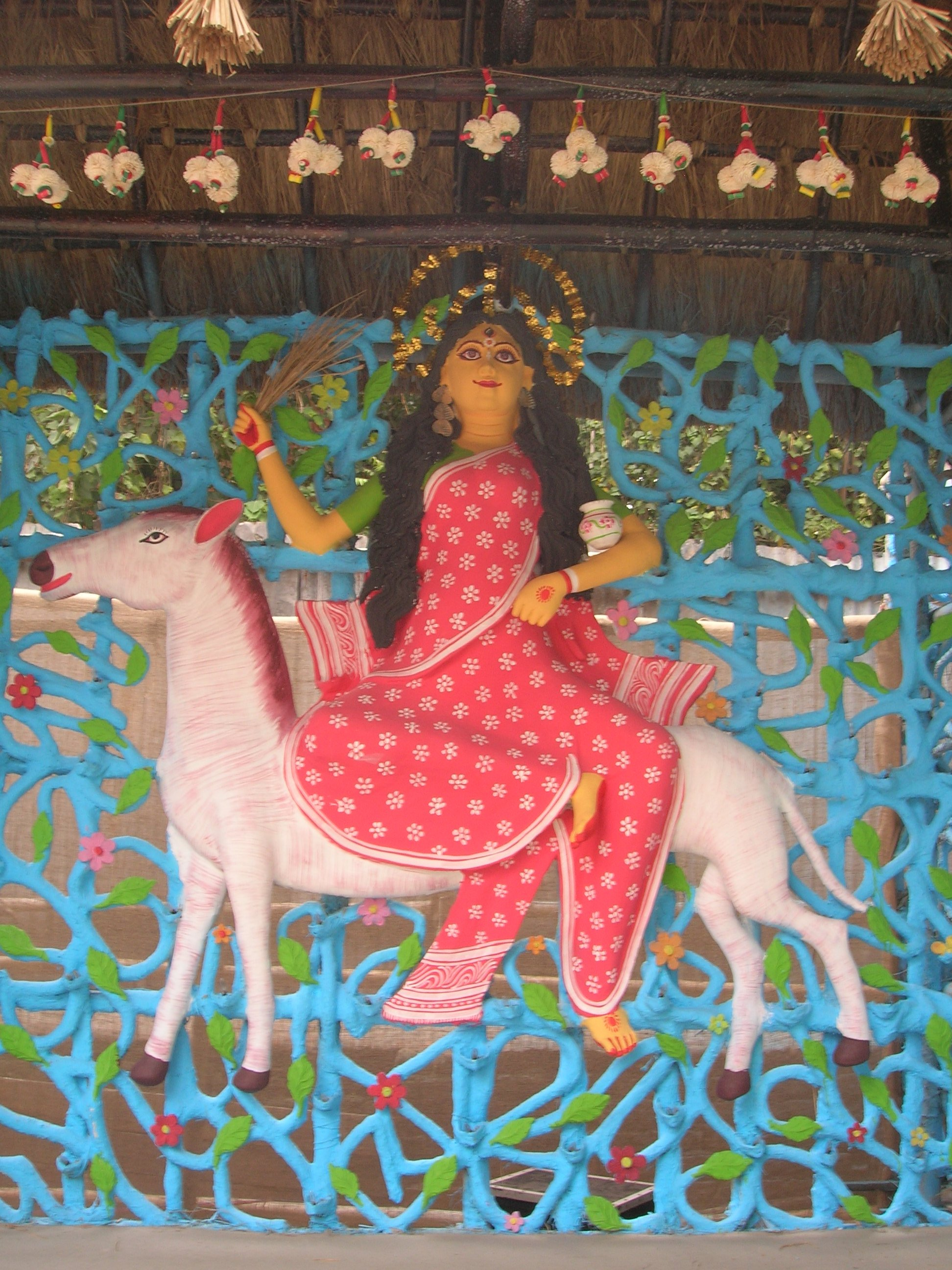 An artistic depiction of Hindu goddess Shitala at 25 Palli Sarbojanin Durga Puja pandal, Kidderpore, Kolkata, 2010.